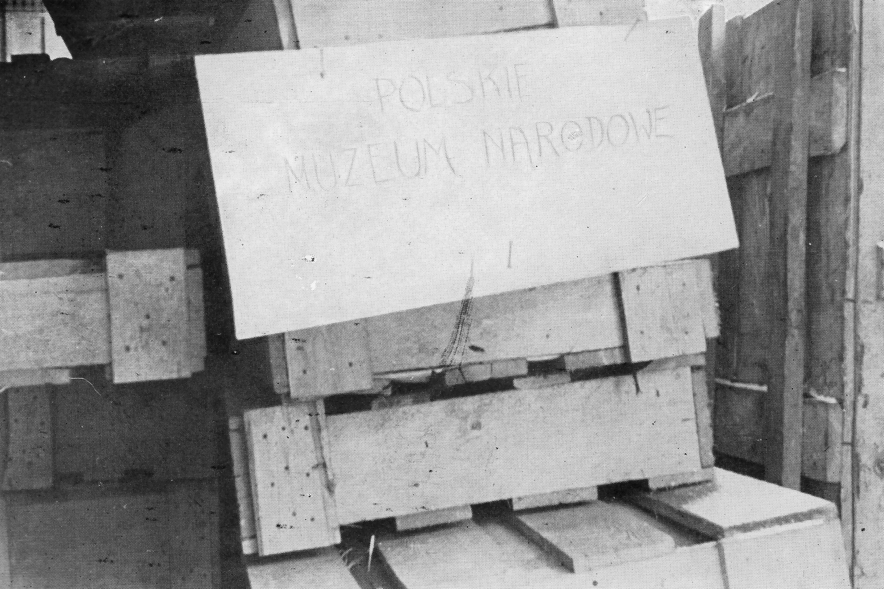 Artwork from Polish National Museum in Kraków packed ready for transport to Germany